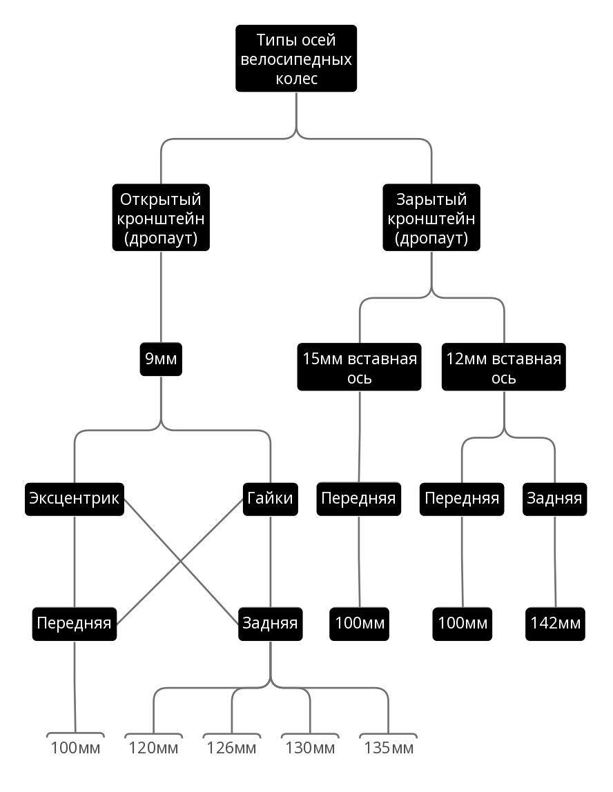 Bike wheel axle types